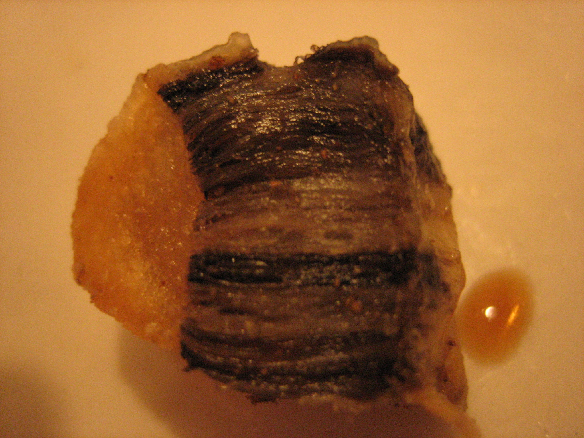 Close up of some Maktaq